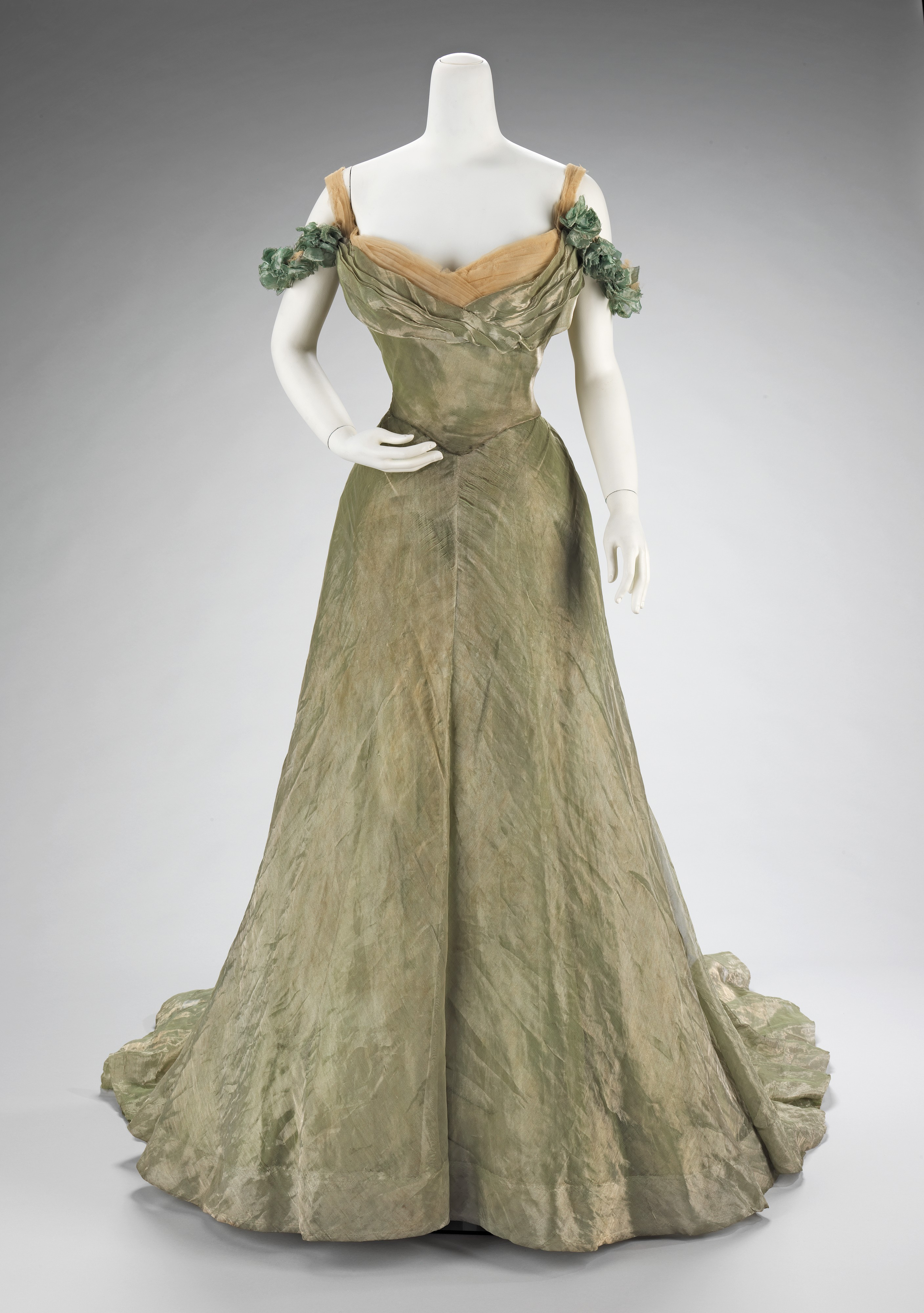 Ball gown created by Jacques Doucet, 1898-1900. Front view